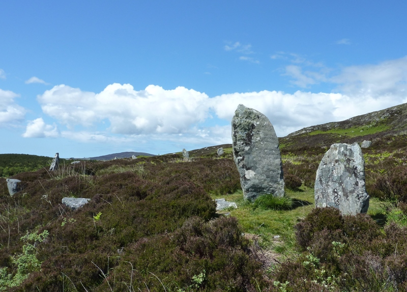 Pobull Fhinn, North Uist, Outer Hebrides, Scotland - view from the east